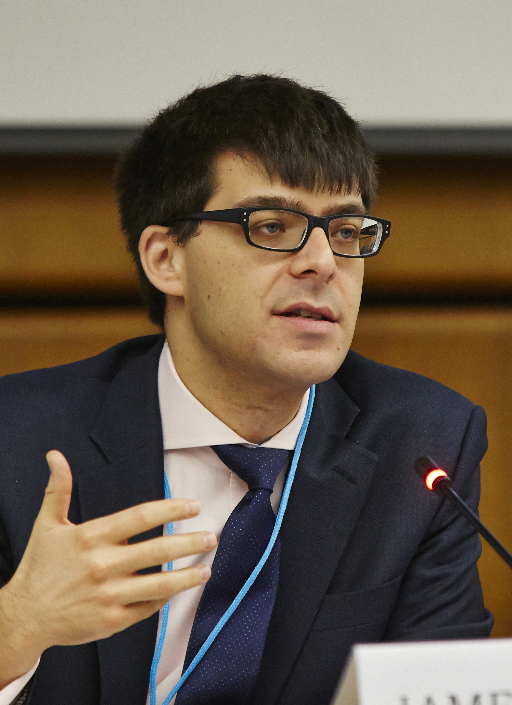 James Acton at CTBTO Symposium 2016